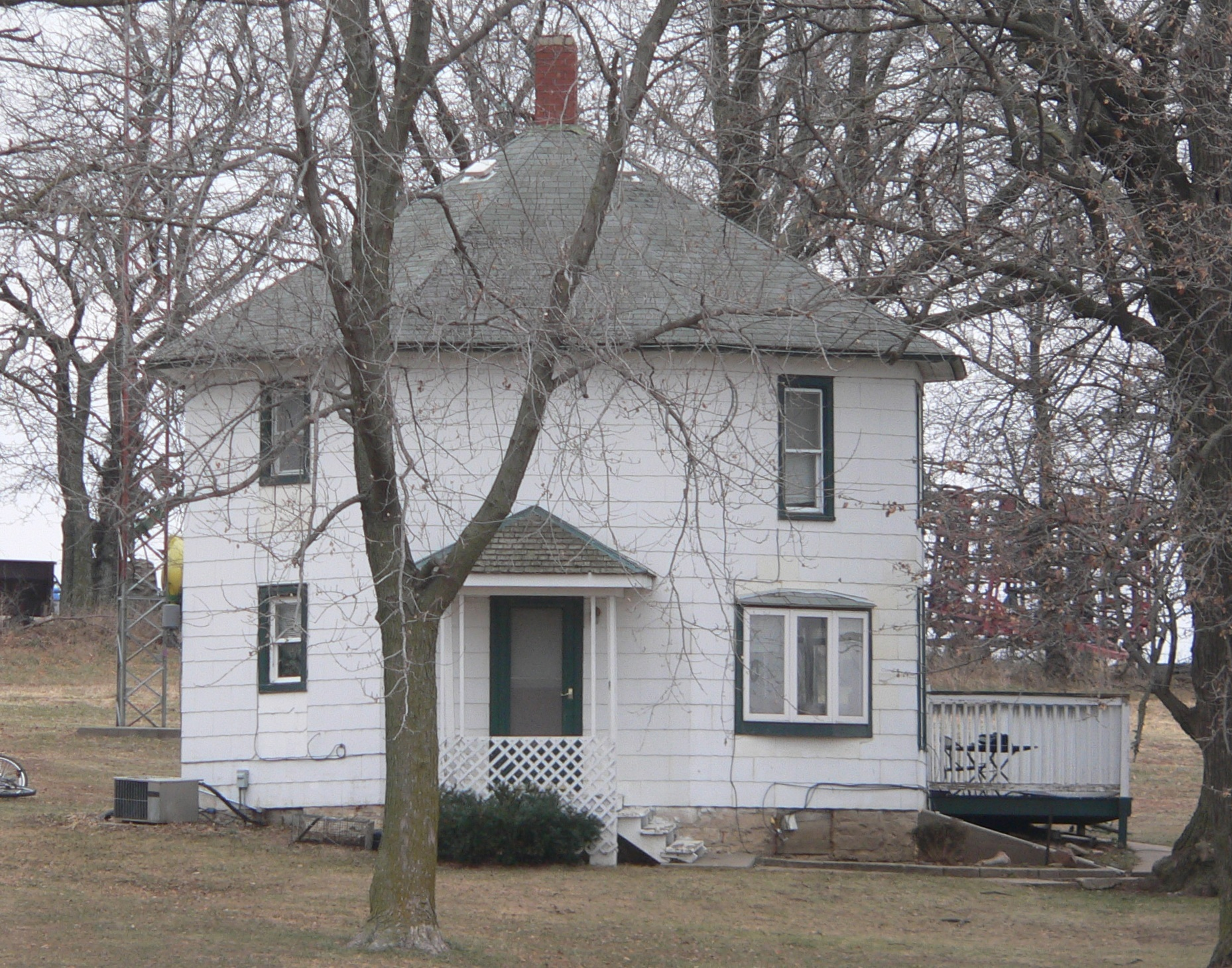 George F. Lee octagon house, located southeast of Nebraska City in rural Otoe County, Nebraska; photographed from county road to the west (so camera is facing generally eastward).